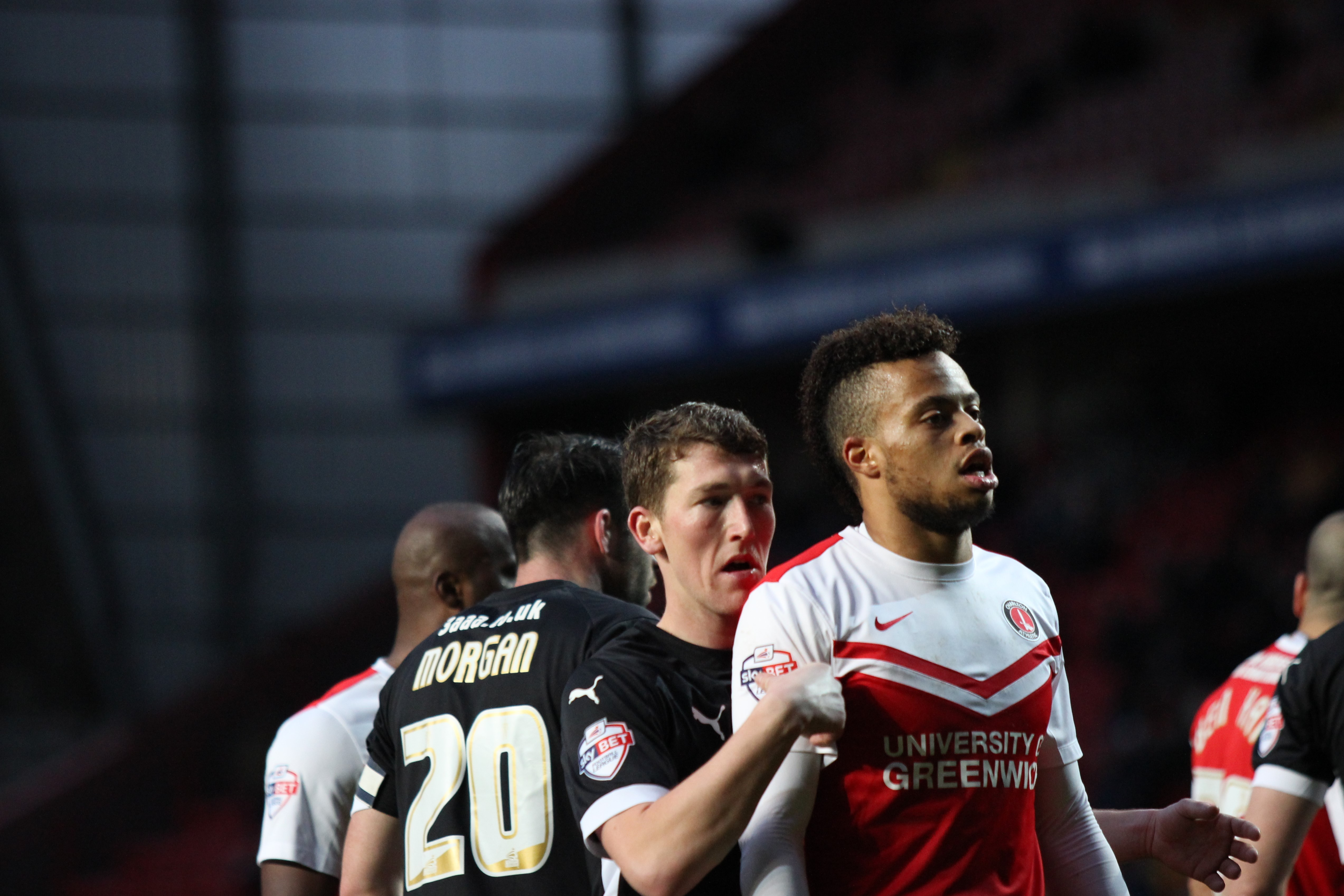 Jordan Cousins of Charlton Athletic is held back by Richie Smallwood of Rotherham United